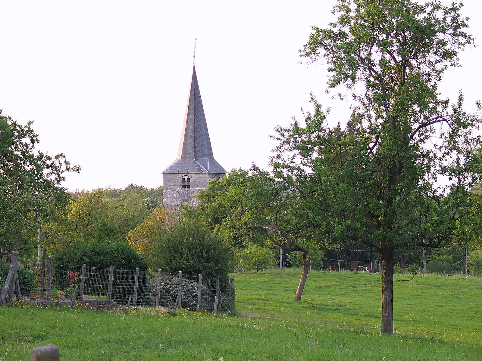 church of Kuttekoven, in Borgloon, Belgium